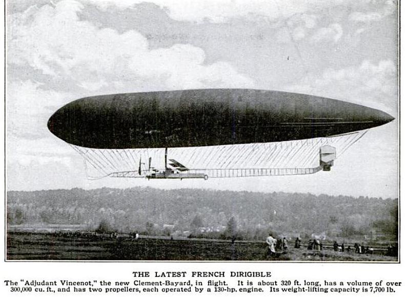 Photograph of the French Dirigible "Adjudant Vincenot", a Clement-Bayard model.